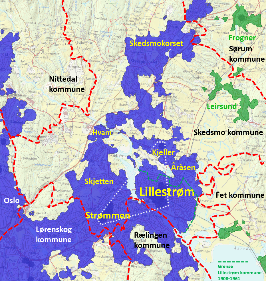 Map of Skedsmo community made by Statistisk Sentralbyrå based on data of 01.01.2012.